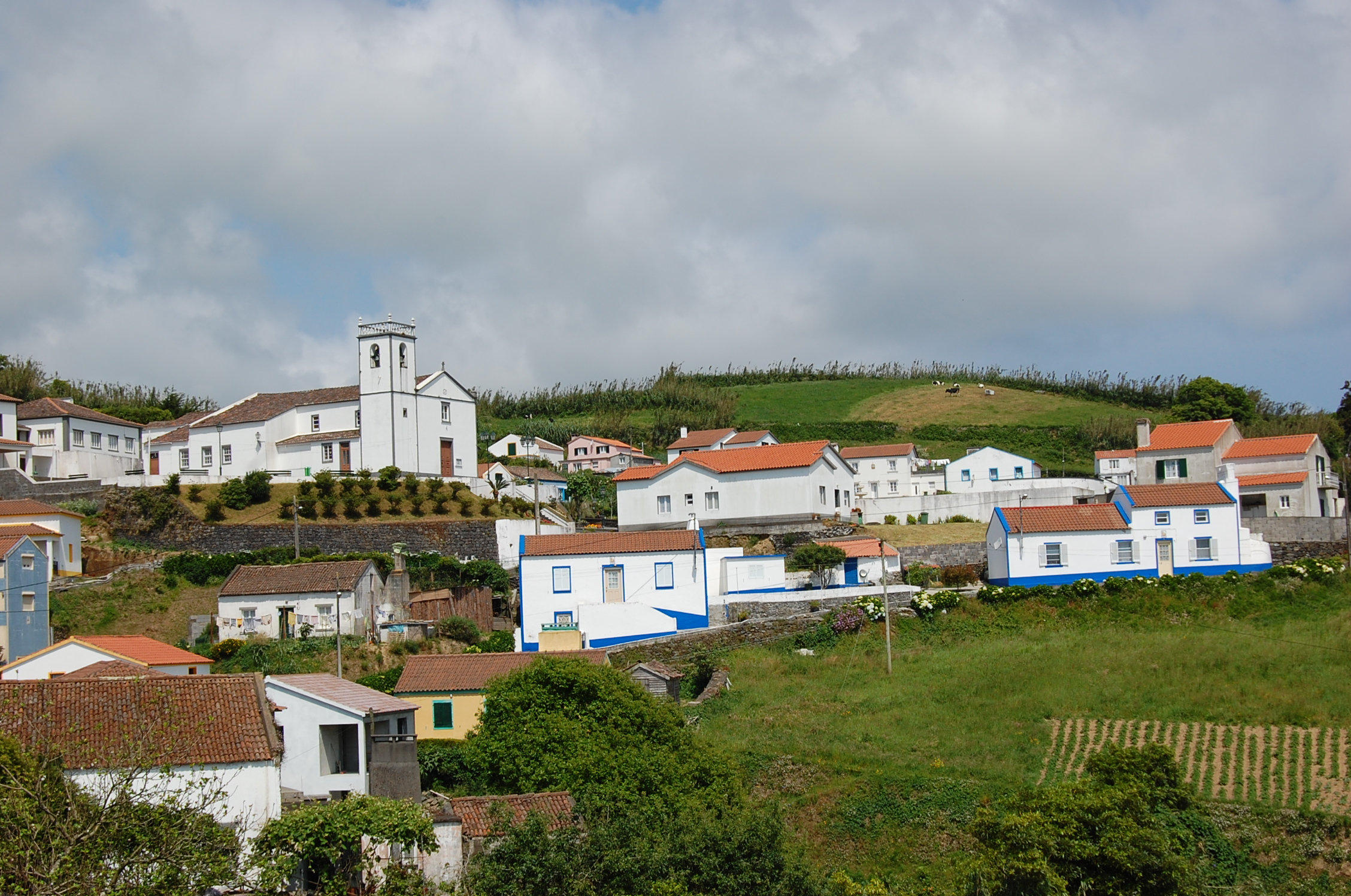 Nice little village and the restaurant was good